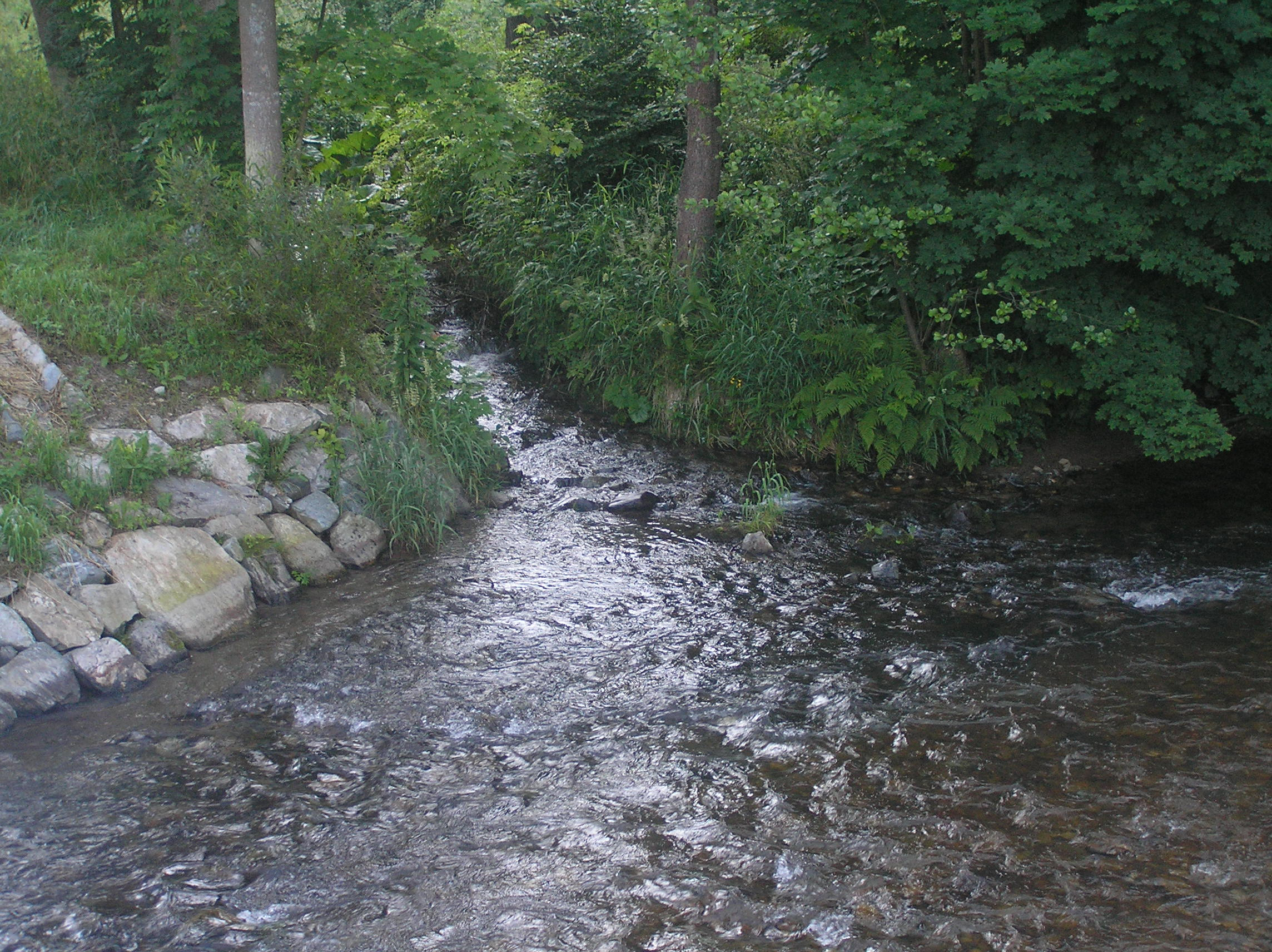 Zelený potok is the creek in the Králický Sněžník Mountains, Czech Republic